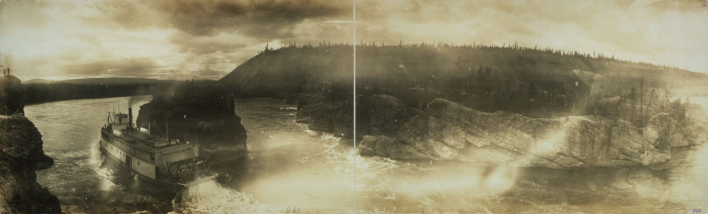 The paddle steamer Low navigating the Five Finger Rapids on the Yukon River, in the Yukon Territory, Canada